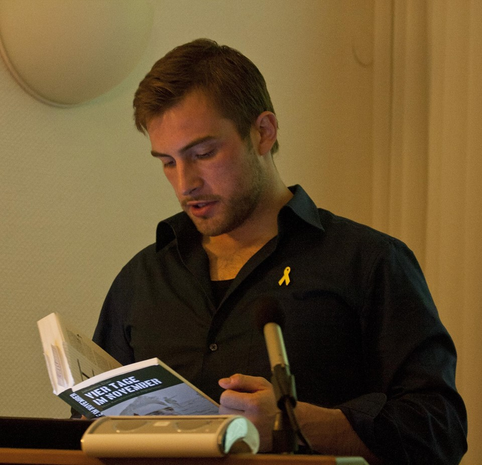 German veteran Johannes Clair at a talk in Cologne about his book and his experiences in Afghanistan .